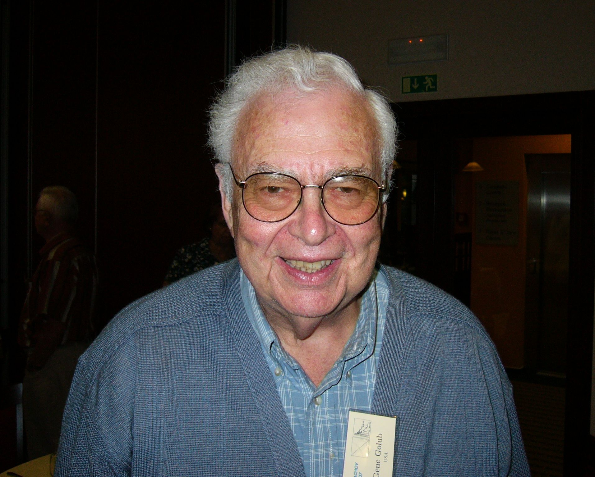 Gene Golub at the Harrachov 2007 conference